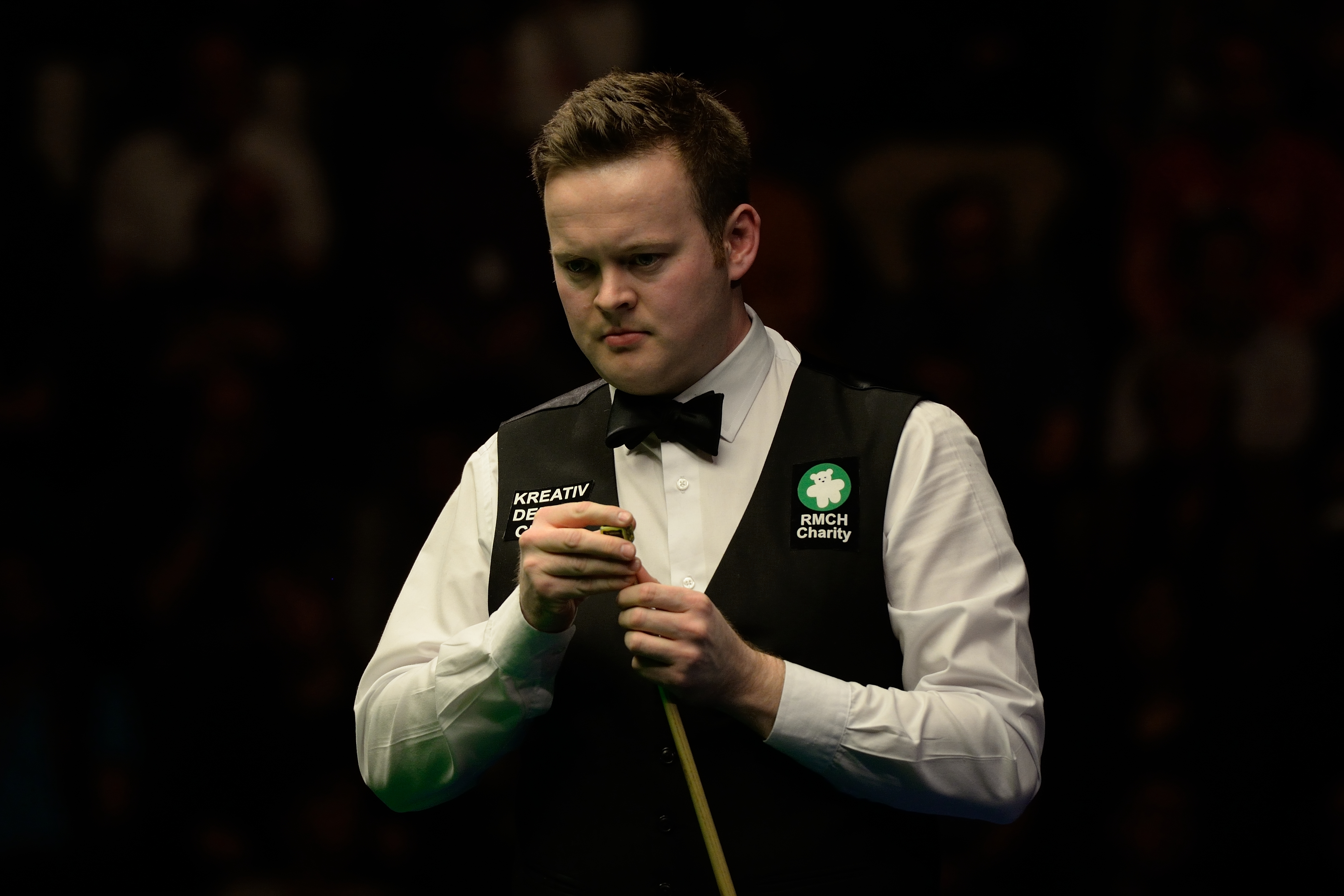 Picture taken in Berlin during the Snooker German Masters in 2015. Shaun Murphy.